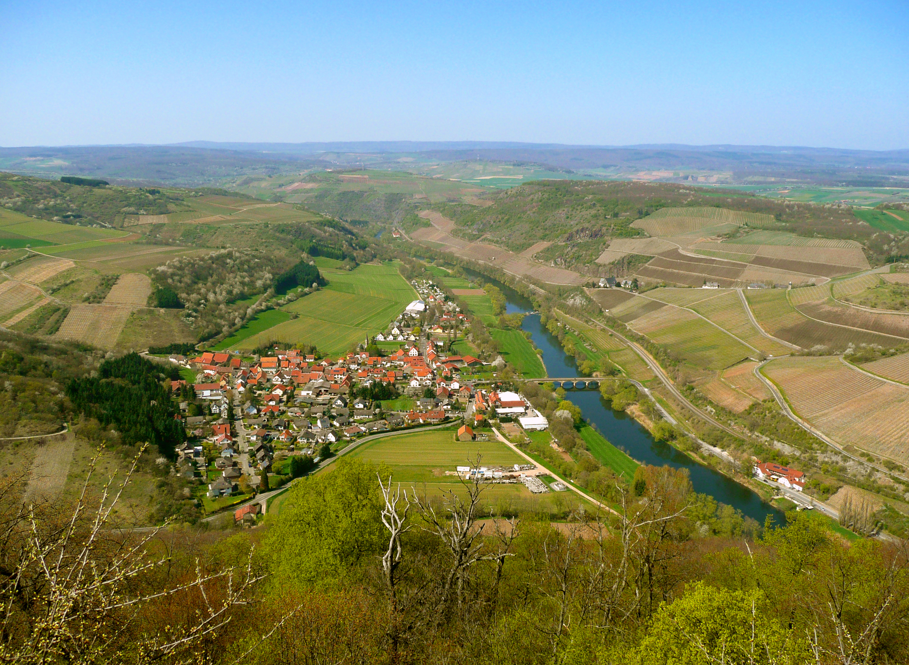 From left to right: Oberhausen - the Nahe bridge - vineyards as seen from 422m. In the north-west direction. Based on Clarke's Grosser Wein Atlas 2001, and Deutscher WeinAtlas 1993.